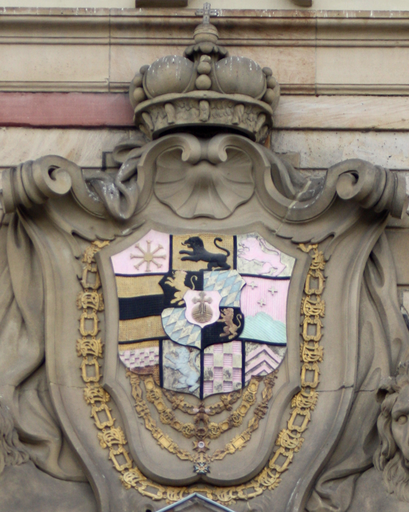 Mannheim, Germany, former armory. Coat of arms of the builder-owner Charles Theodore, prince-elector of Palatinate and Bavaria. It shows his possessions: on the main shield Cleves, Jülich, Berg, Moers, Bergen op Zoom, Mark, Veldenz, Sponheim, and Ravensberg, on the centre shield Palatinate and Bavaria.